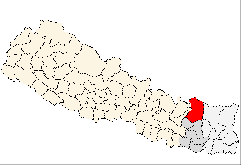 FrenchCarte de localisation dudistrict de Solukhumbu(wp-FR),au Népal (wp-FR).EnglishLocation map ofSolukhumbu District(wp-EN),in Nepal (wp-EN).